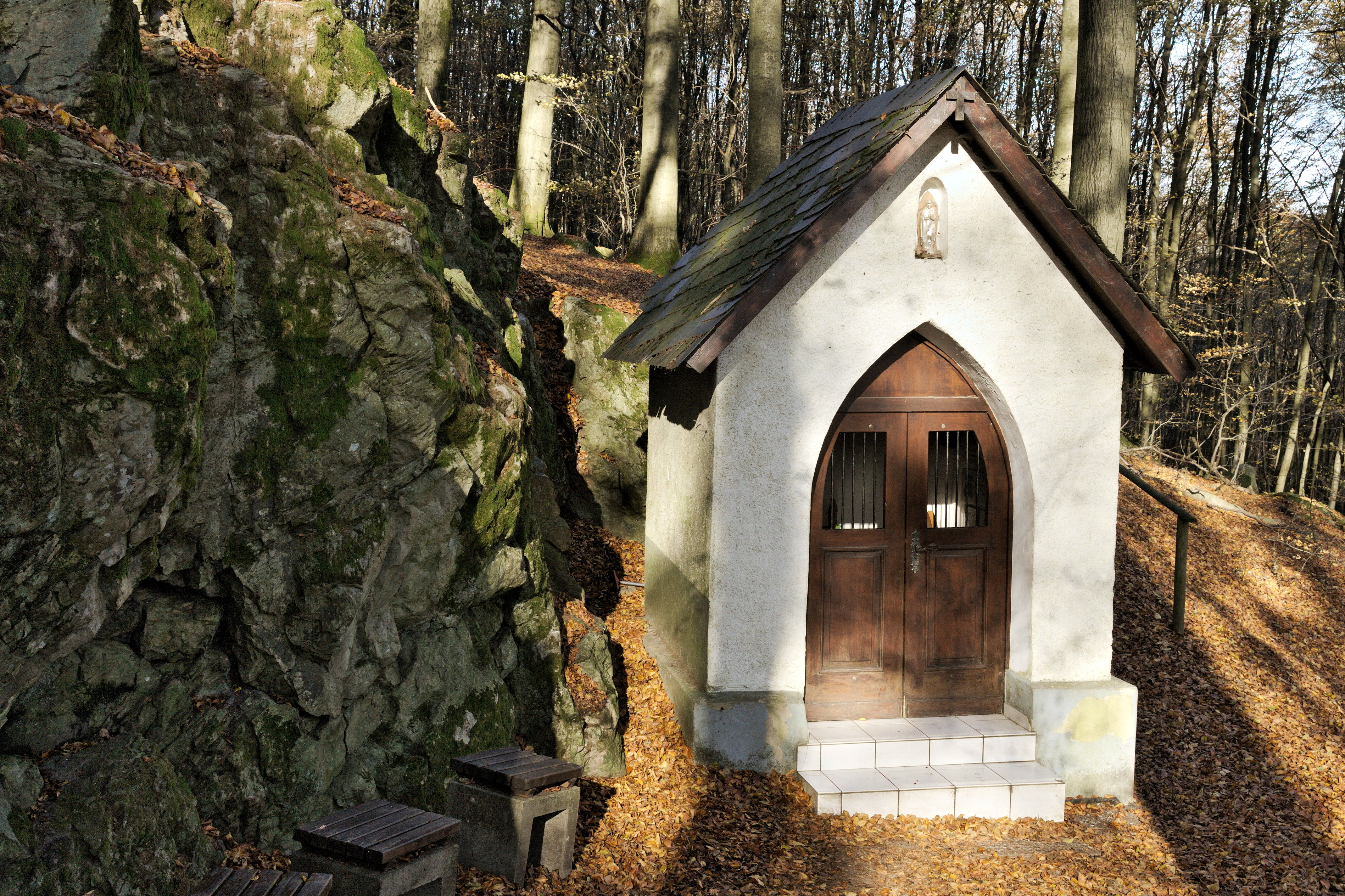 Malberg mountain top chapel. Part of a nature reserve in Westerwaldkreis, Germany